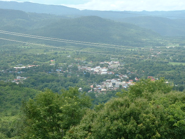 Central settlement of Amphoe Dan Sai, Loei Province, northern Thailand.